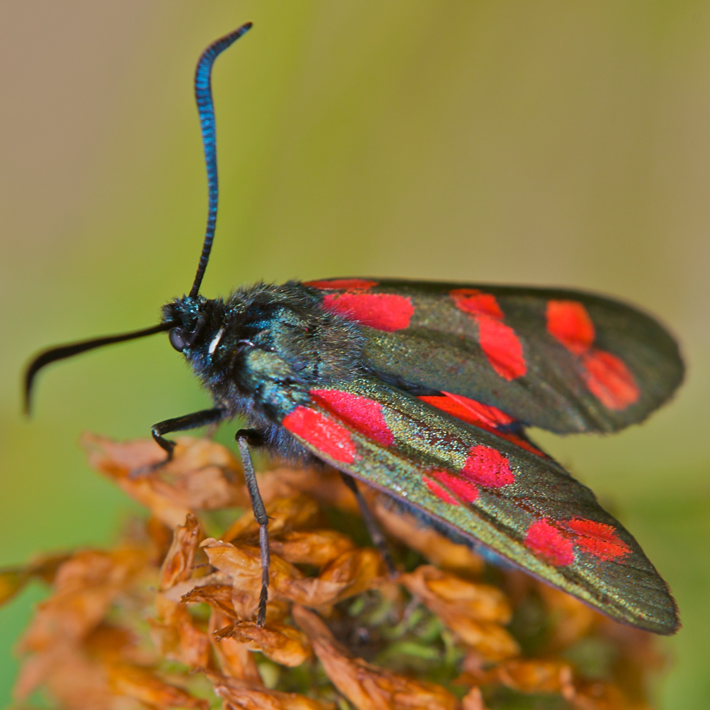 Six-spot burnet